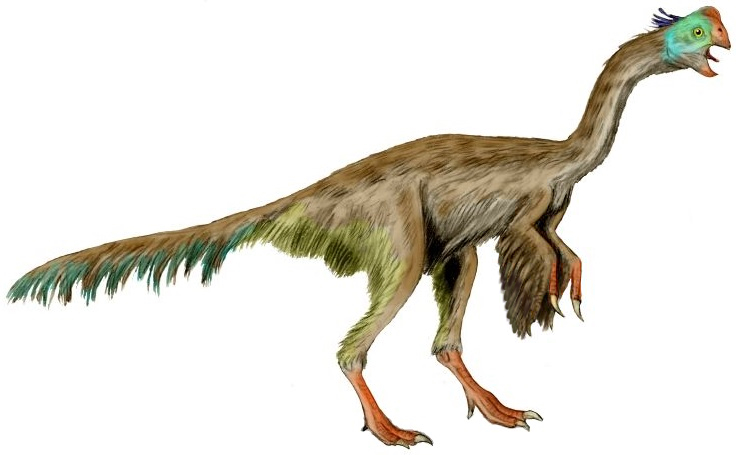 Gigantoraptor erlianensis, a giant oviraptorosaur from the Late Cretaceous of Mongolia, based on skeletal reconstruction by Xu et al., 2007; pencil drawing